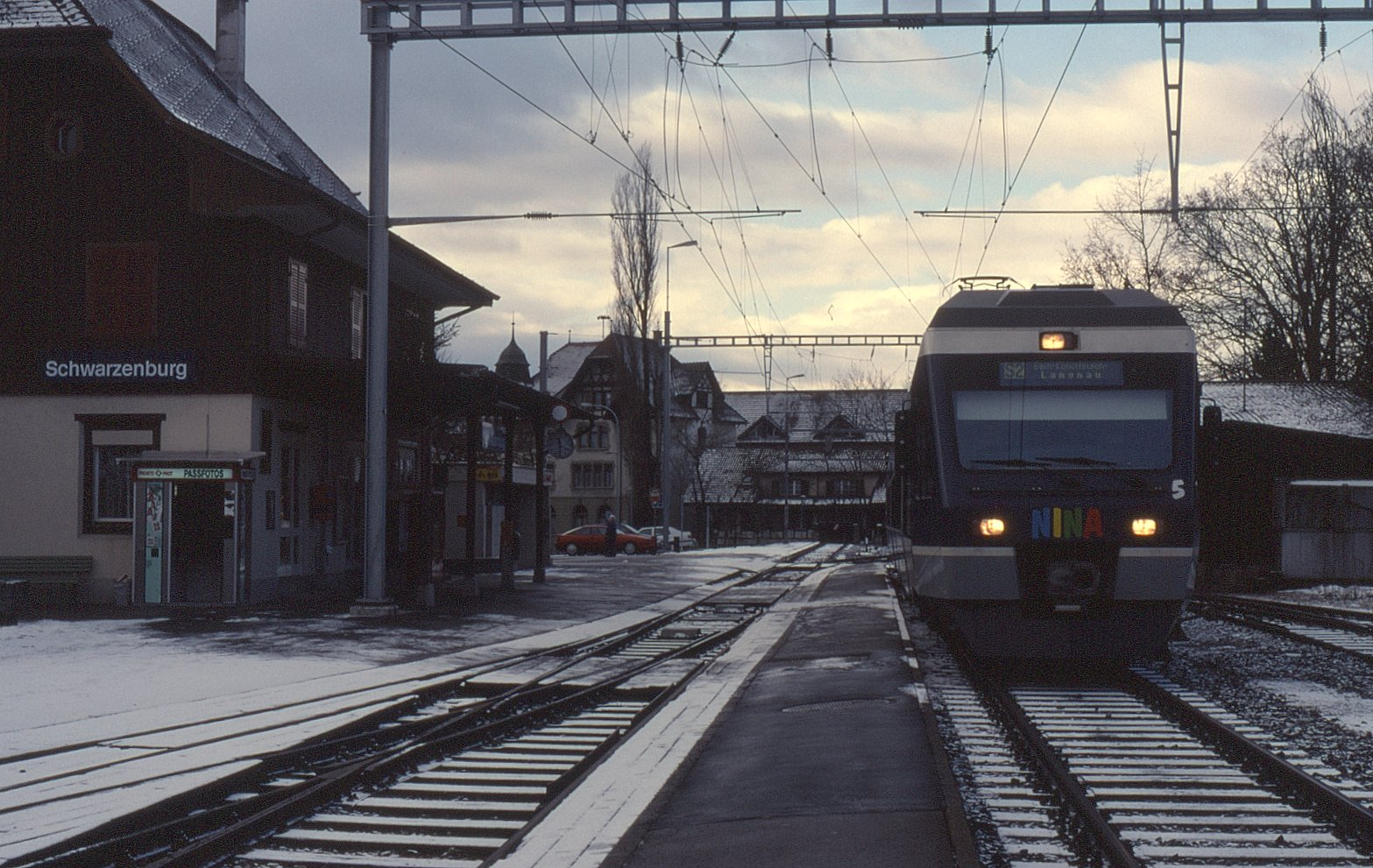 One of the Bern Lötschberg Simplon (BLS) lines, this line was formerly Gürbetal Bern Schwarzenburg Bahn (GBS). Nowadays it is part of the S-Bahn Bern. On 5 December 1999, 525.005 forms train 15253, 11:34 Schwarzenburg to Bern.